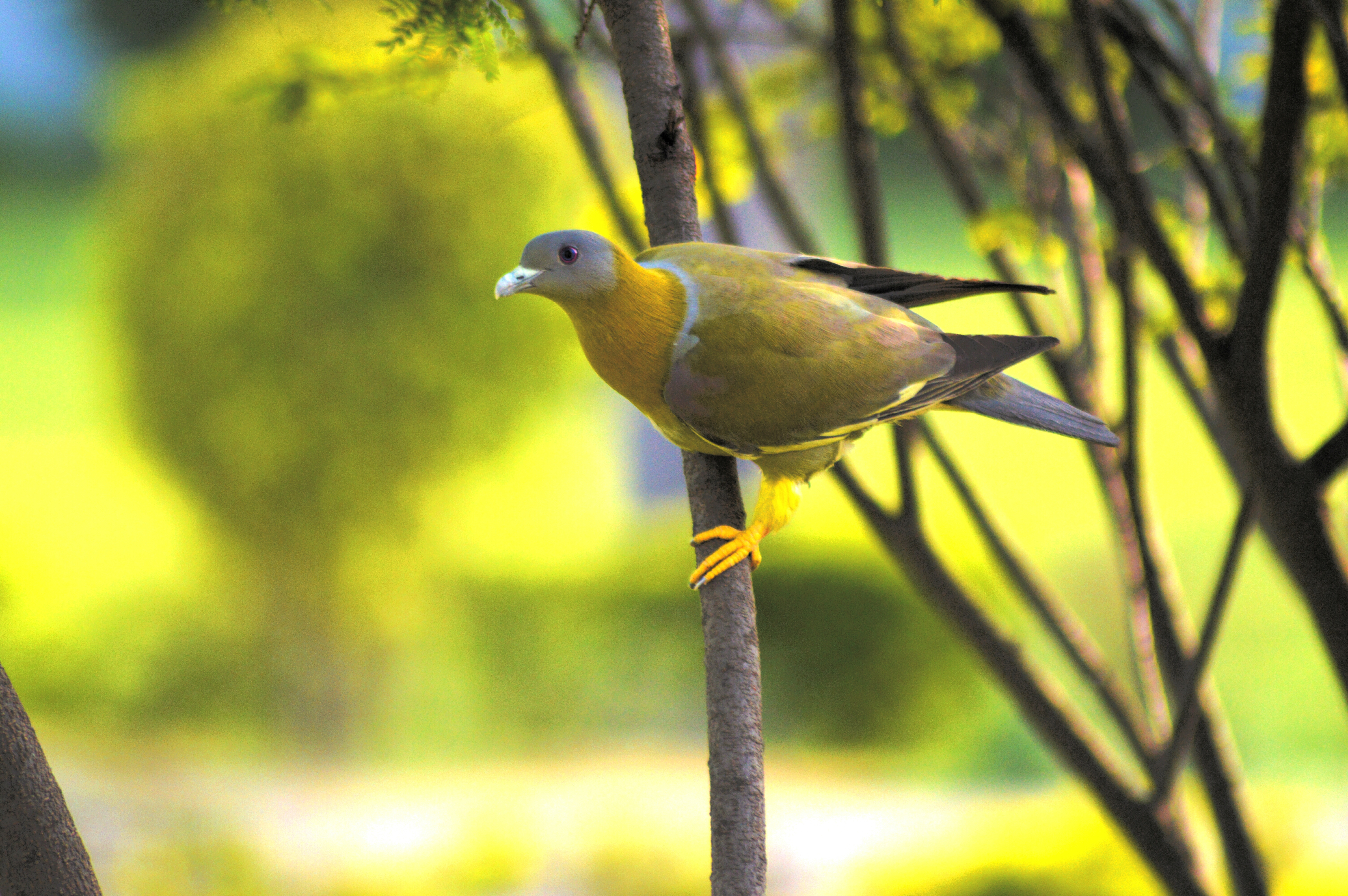 nature